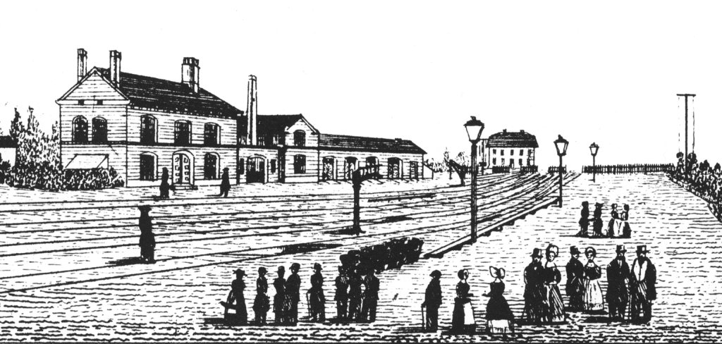 Elmshorn (Germany),train area